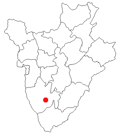 Bururi, Burundi Location Map; created with the GIMP. Made by User:Acntx.